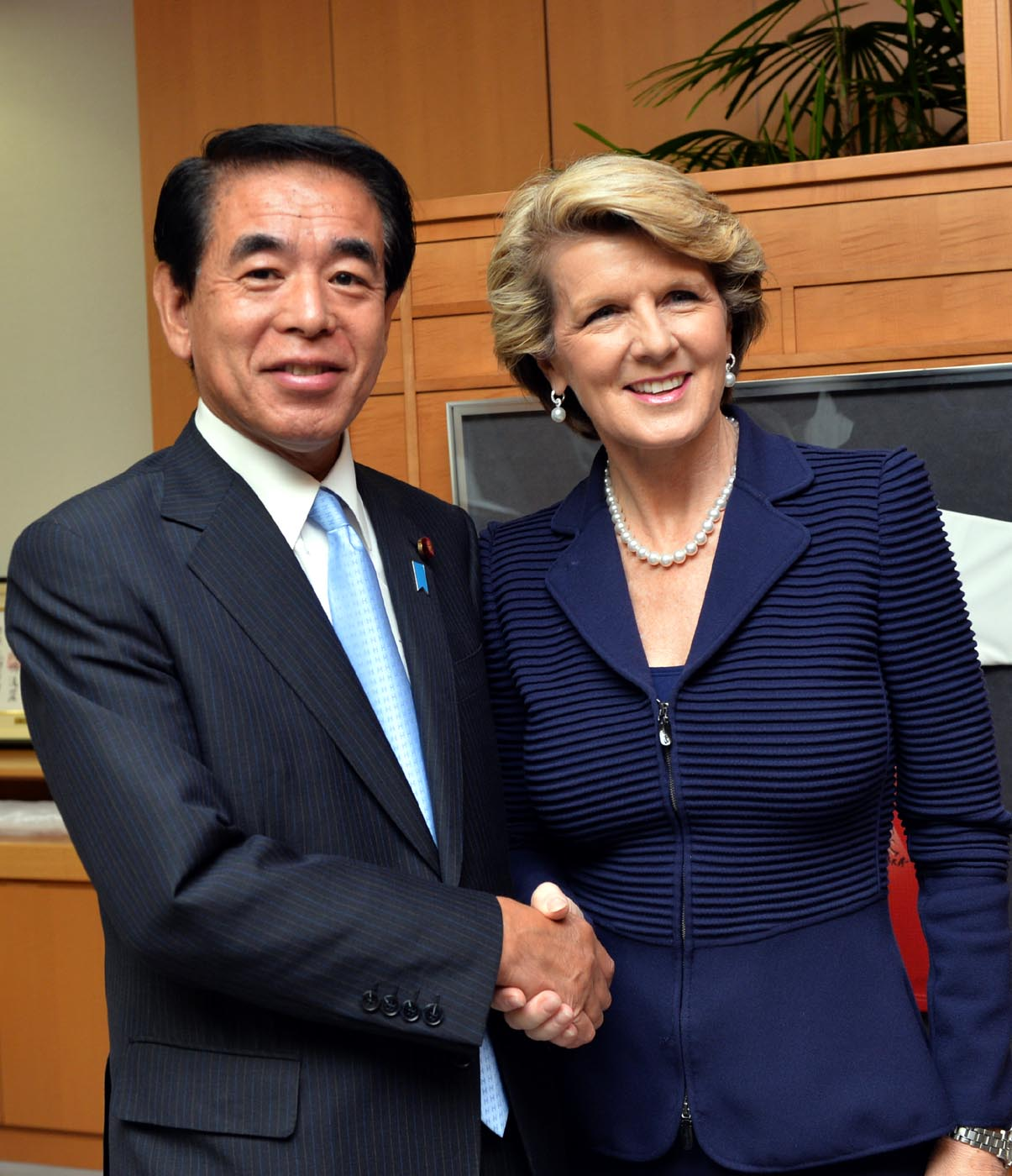 Meeting with Mr Hakubun Shimomura, Minister of Education, Culture, Sports, Science and Technology. 15 October 2013